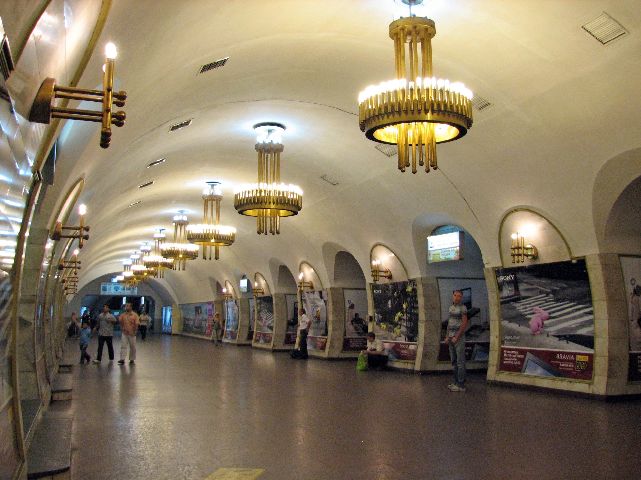 Ploshcha Lva Tolstoho Metro Station in Kyiv, Ukraine.